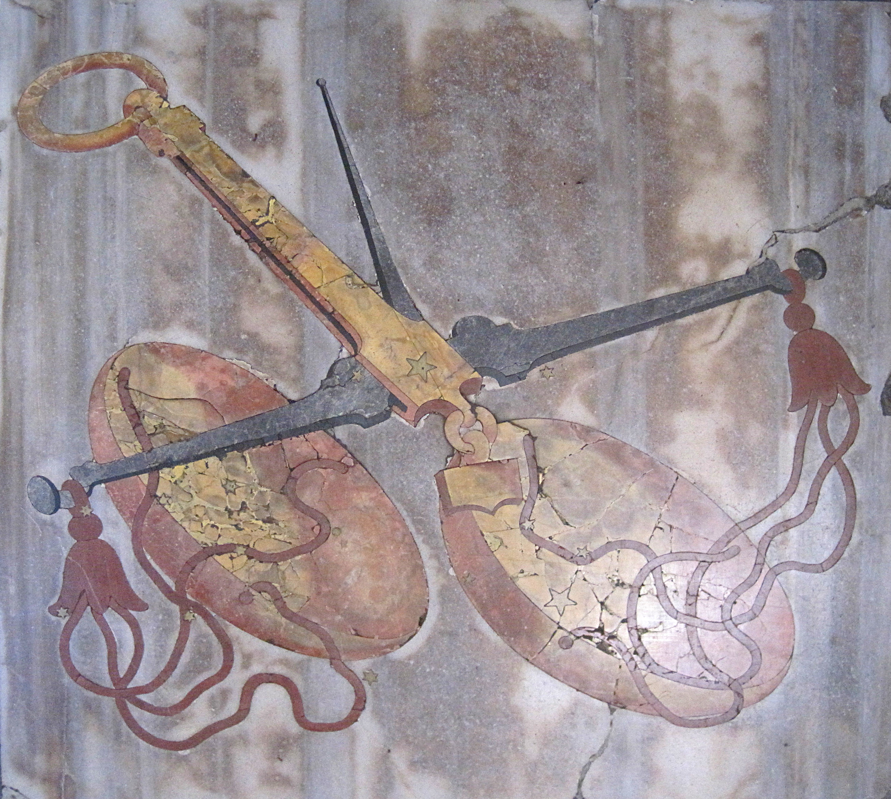 Zodiacal sign of the Libra on panel of white marble inlaid with colored marble (opus sectile) adorning one side of the Meridian solar line of Basilica Santa Maria degli Angeli e dei Martiri in Rome built by Francesco Bianchini (1702).